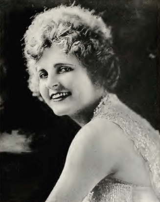 Actress Rubye De Remer from Who's Who on the Screen, published by Ross Publishing Co., 1920 [1]